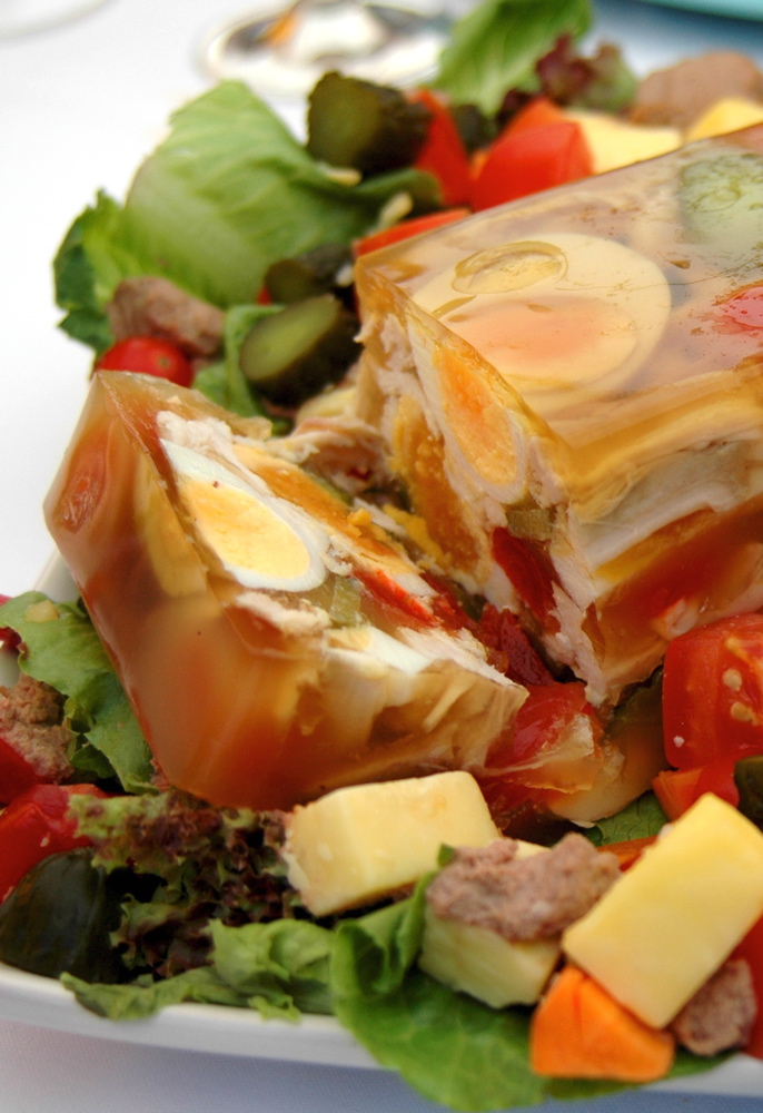 A photo titled "Terrine de mère et de fille" -- literally, "pot of mother and daughter". It's an aspic with chicken and eggs. I (User:Dreamyshade) brightened the image from the original.